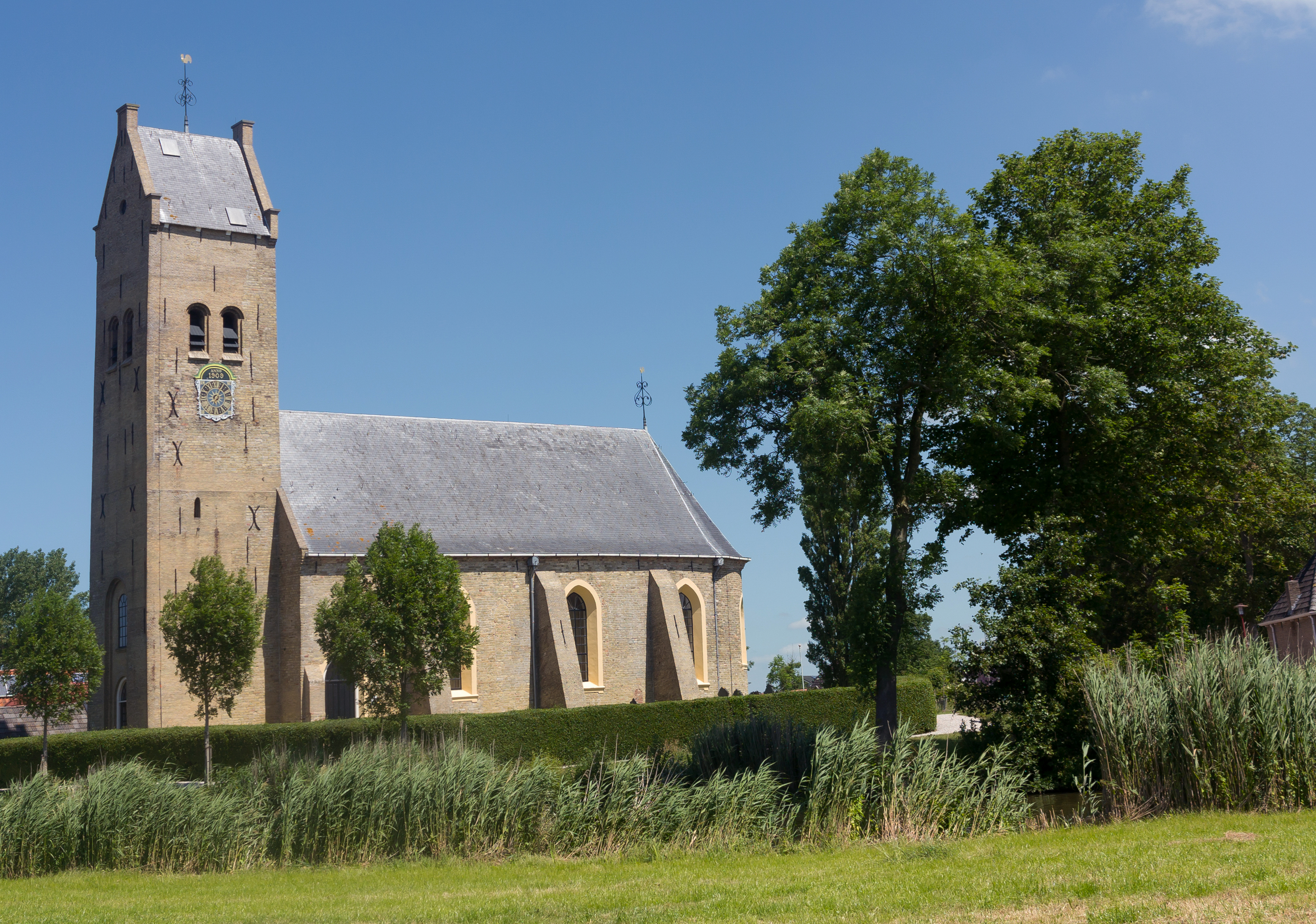 Hichtum, reformed church